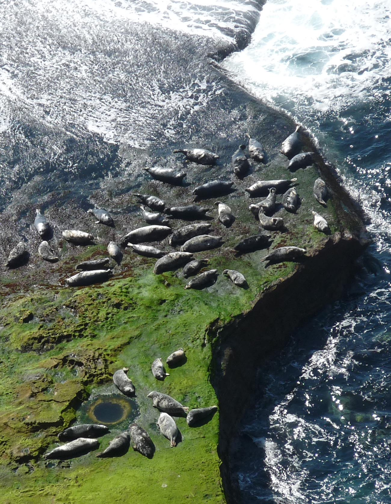 Seals hauled out by Lyrie Geo, Hoy, Orkney, Data from Geograph: Description: This site can be seen in context at 2472866. ICBM: 58.848960014414, -3.3751432926557 Location: 3 km from Rackwick, Orkney Islands, Great Britain.